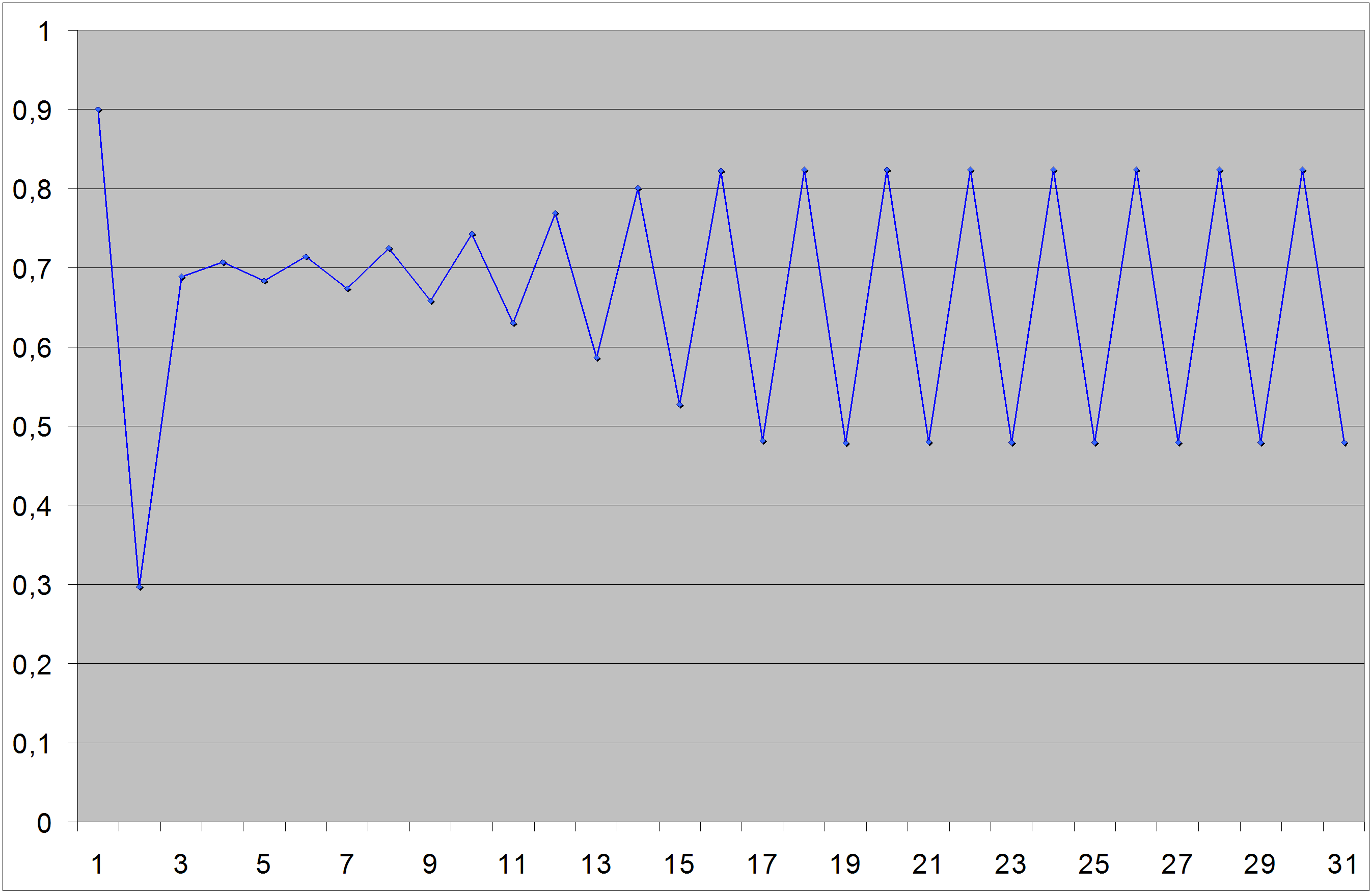 Graph that shows solutions of a function when r equals 3.3 for n=0 to 31. It is clear that, after a while, xn gets infinitely close to the values of alternately 0.479427 and 0.823603.